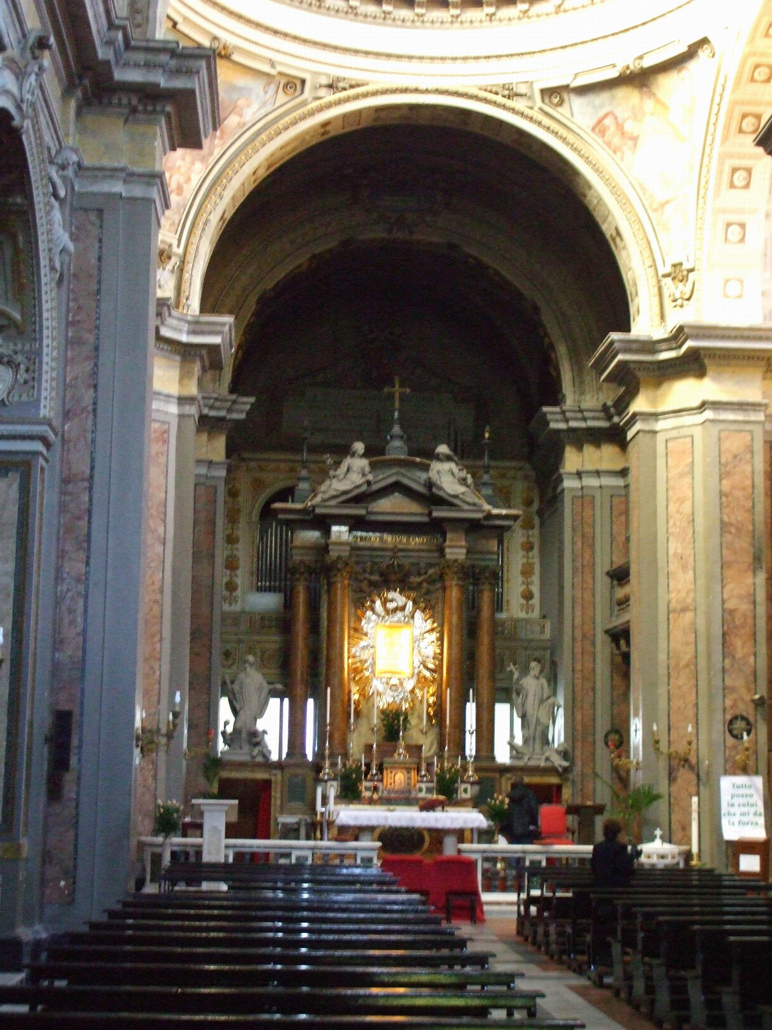 Galloro - inside